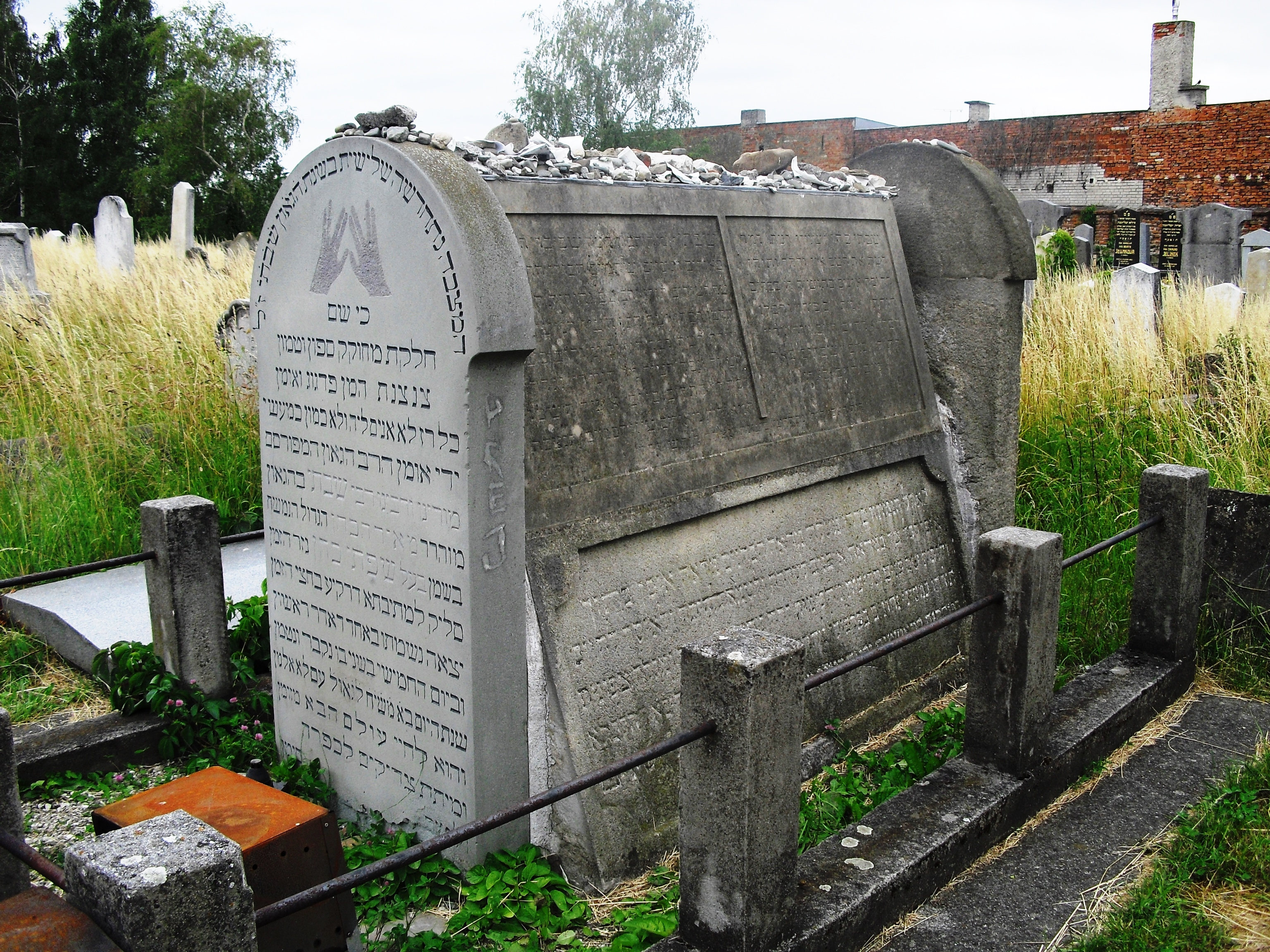 Holešov, Kroměříž District, Czechia. Jewish cemetery.